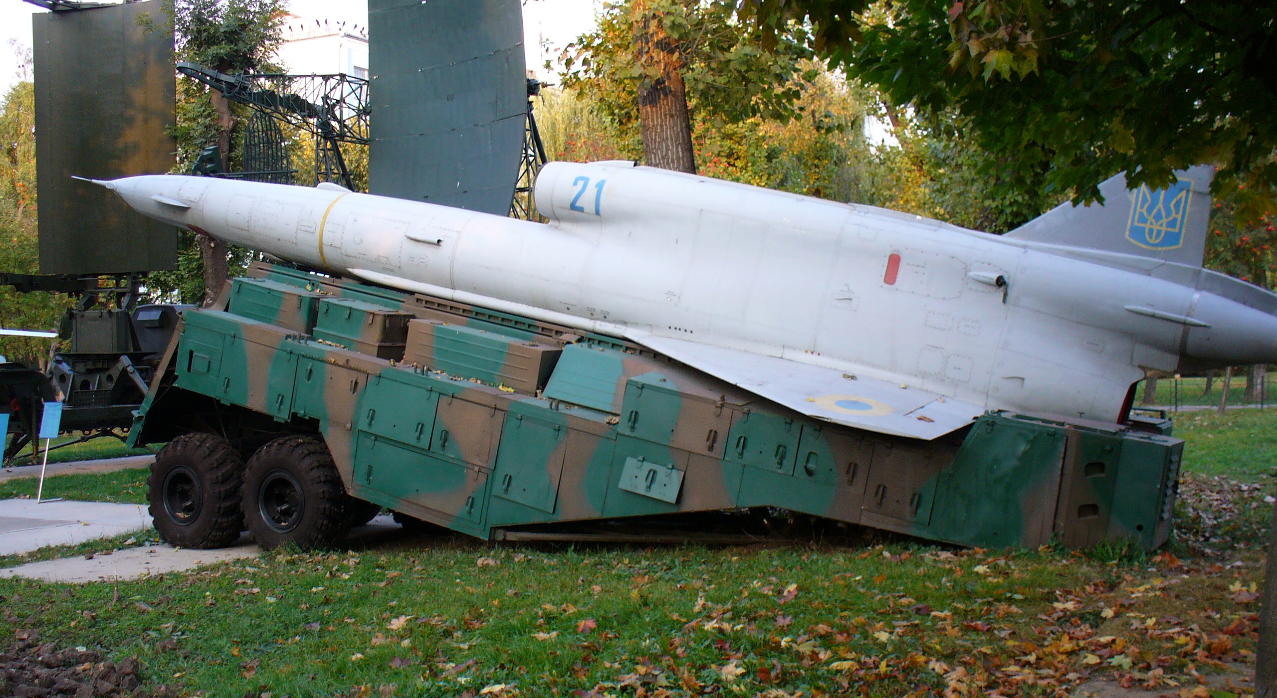 Tupolev Tu-141 Strizh (Swift) on the launcher. USSR medium-range reconnaissance UAV (drone). Ukrainian Air Force Museum in Vinnitsa.